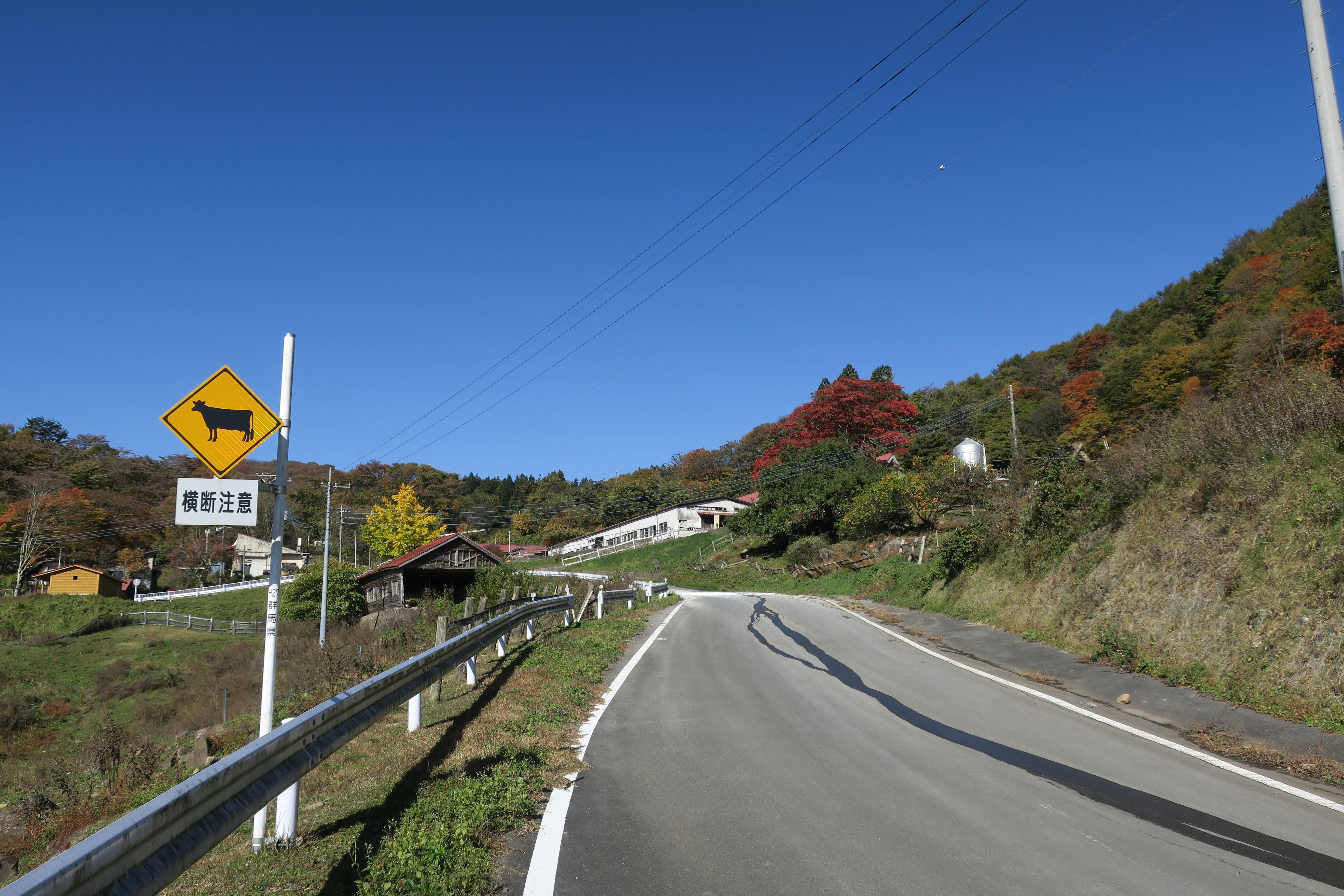 Kouzu Dairy Farm (Shimonita, Gunma).